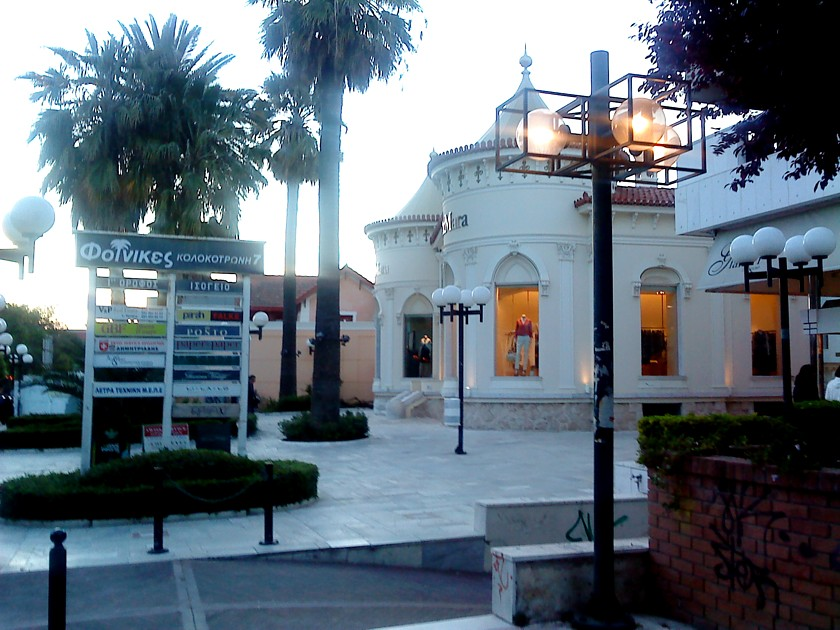 Kifissia centre